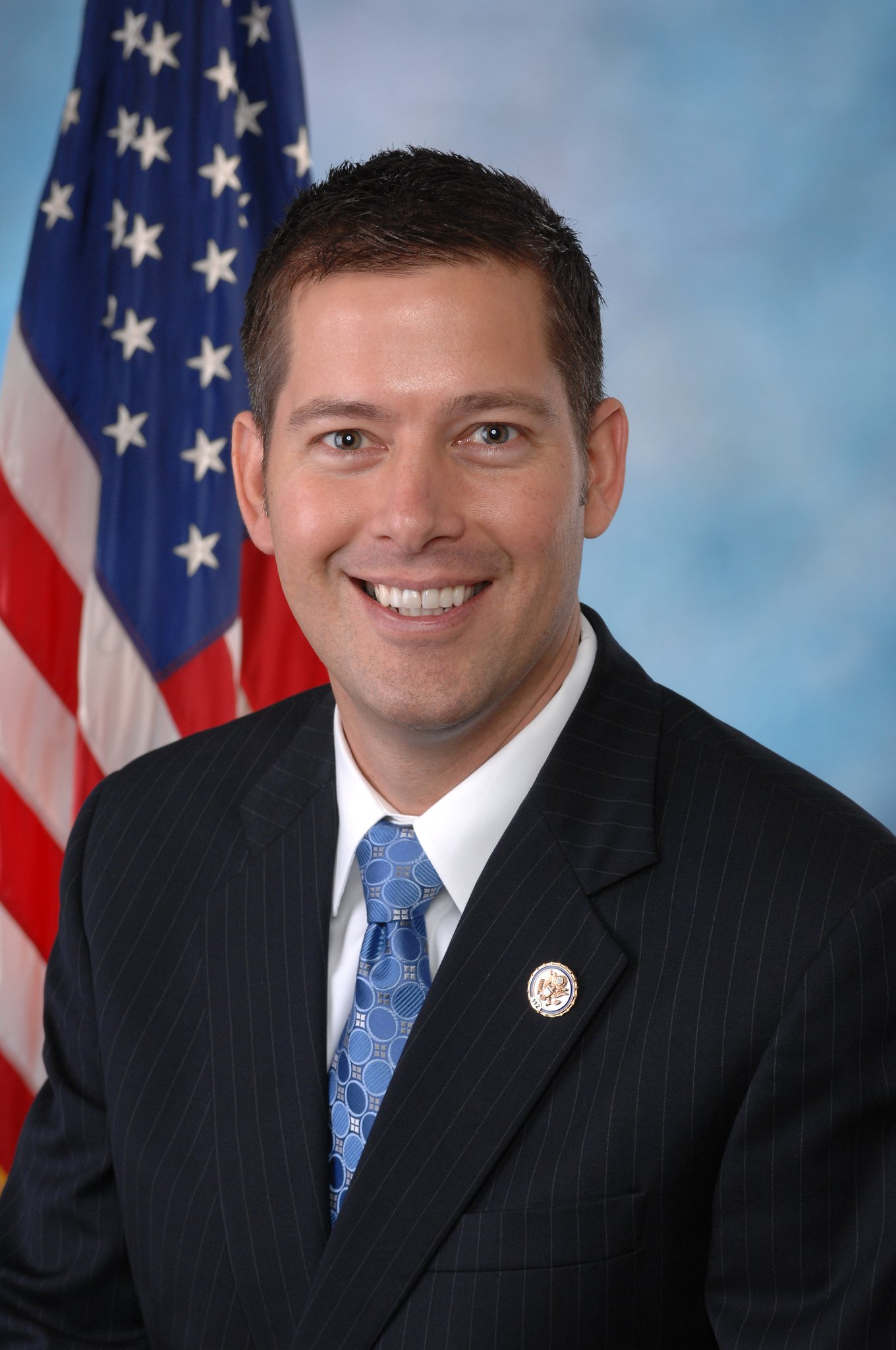 Official portrait of Rep. Sean Duffy.